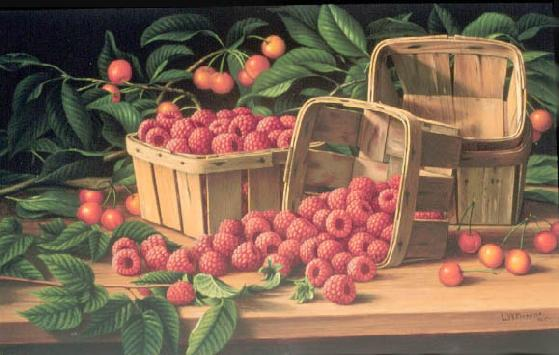 Cherries and Rasberries in a Basket